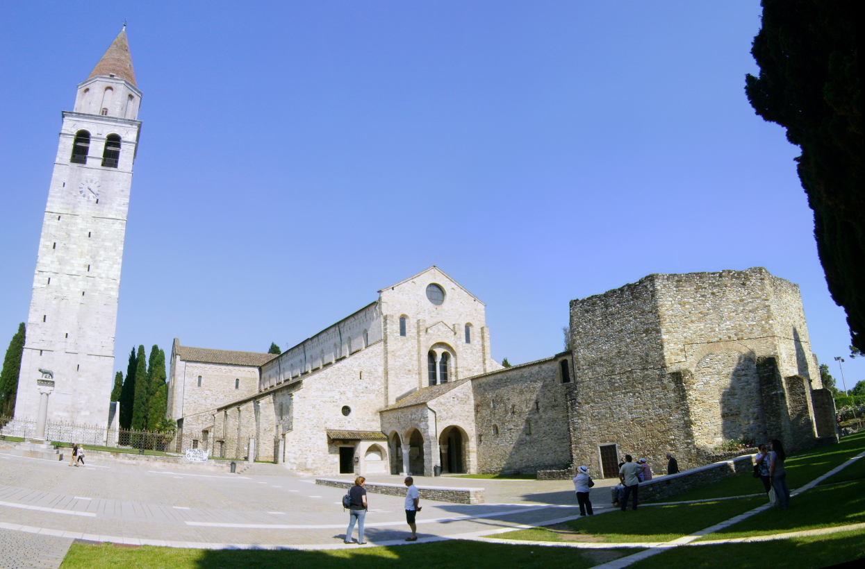 The basilica of the Assumption of St. Mary in Aquileia, in the Province of Udine, Friuli-Venezia Giulia